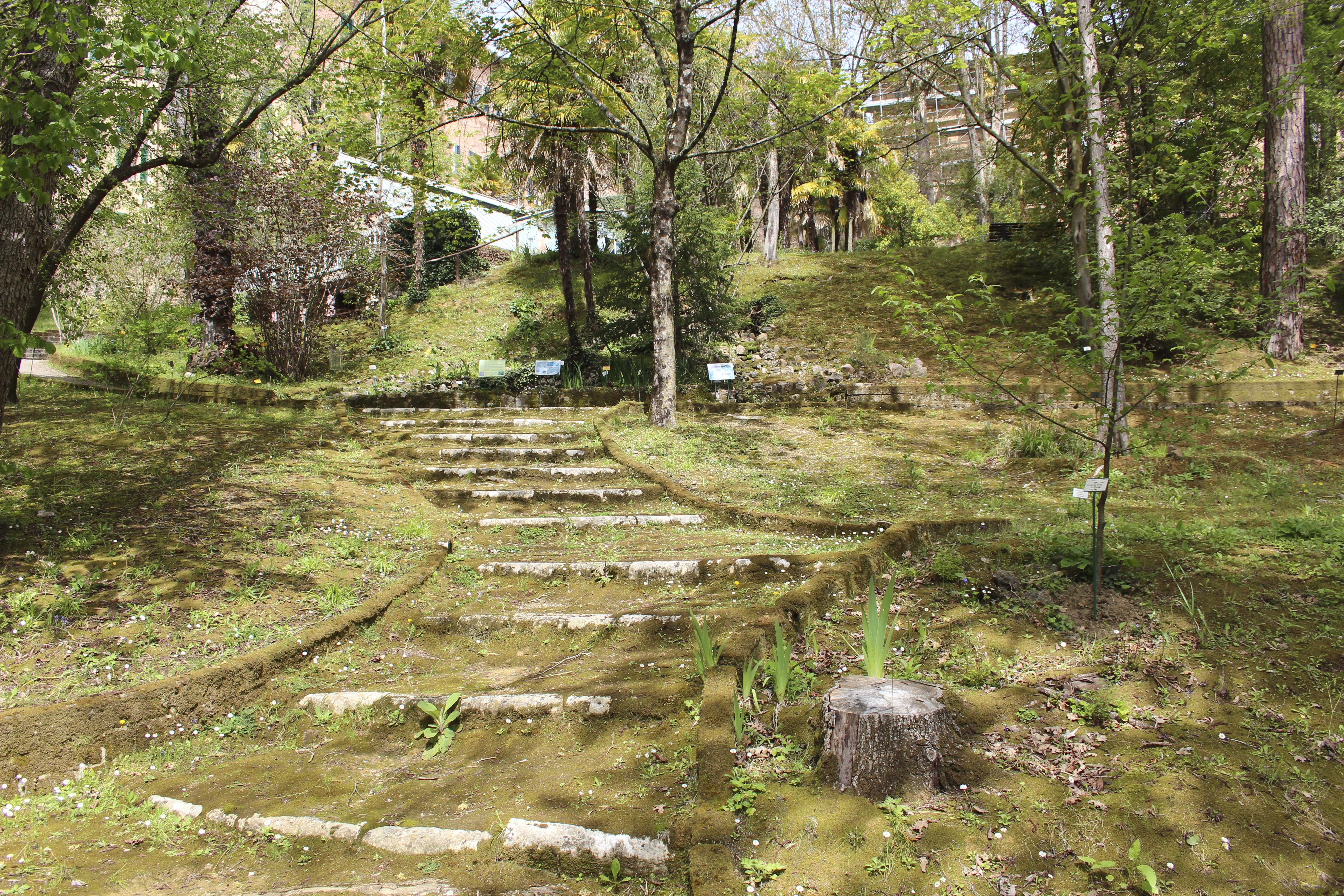 Botanical garden (Orto botanico di Siena, also Orto Botanico dell'Università di Siena), Siena, Province of Siena, Tuscany, Italy